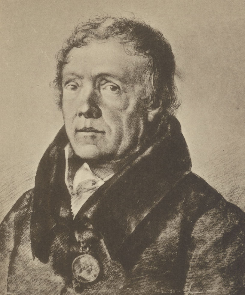 Christian August Vulpius (1762-1827), German novellist